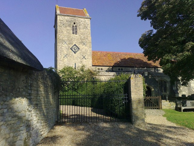 Parish church of the Assumption of the Blesséd Virgin Mary, Lillingstone Lovell, Buckinghamshire, seen from the south